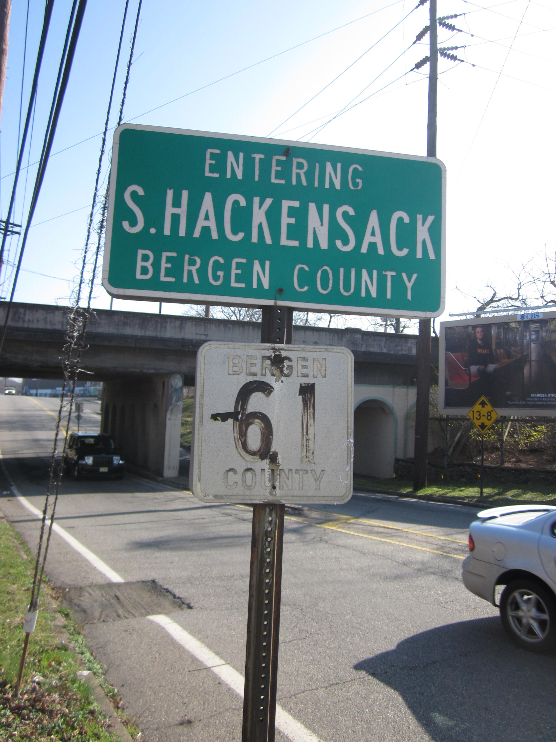 South Hackensack, Bergen County, New Jersey